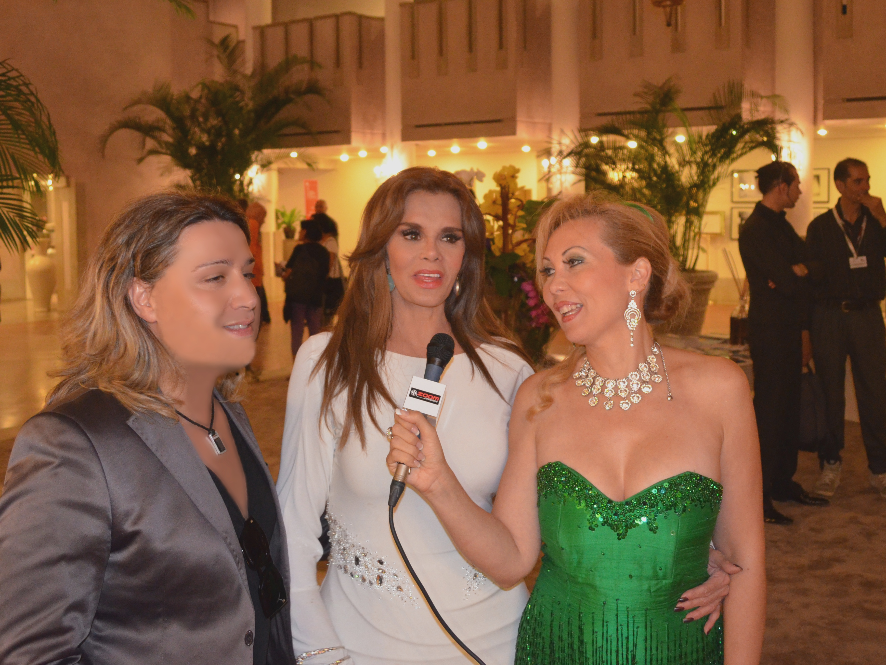 Davi Wornel with Lucia Mendez (Festival di Venezia)